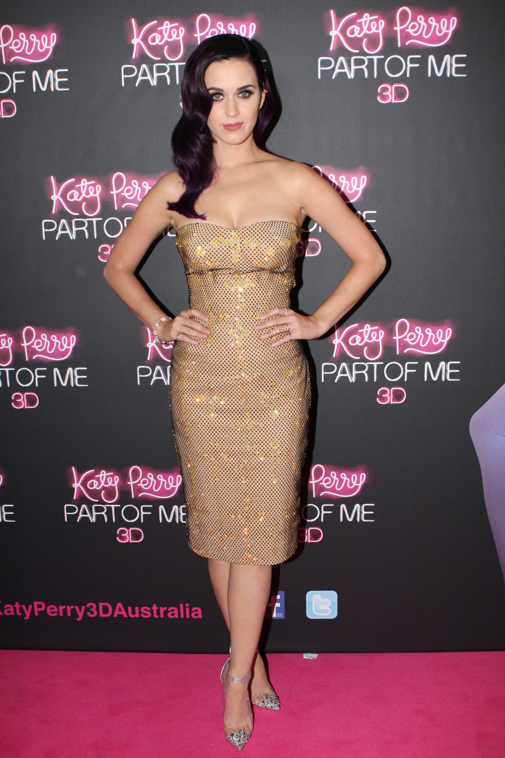 Katy Perry 'Part Of Me' movie premiere in Sydney, Australia